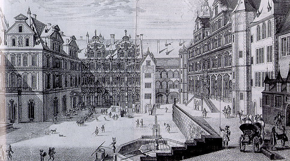 historic views of Heidelberg, Germany